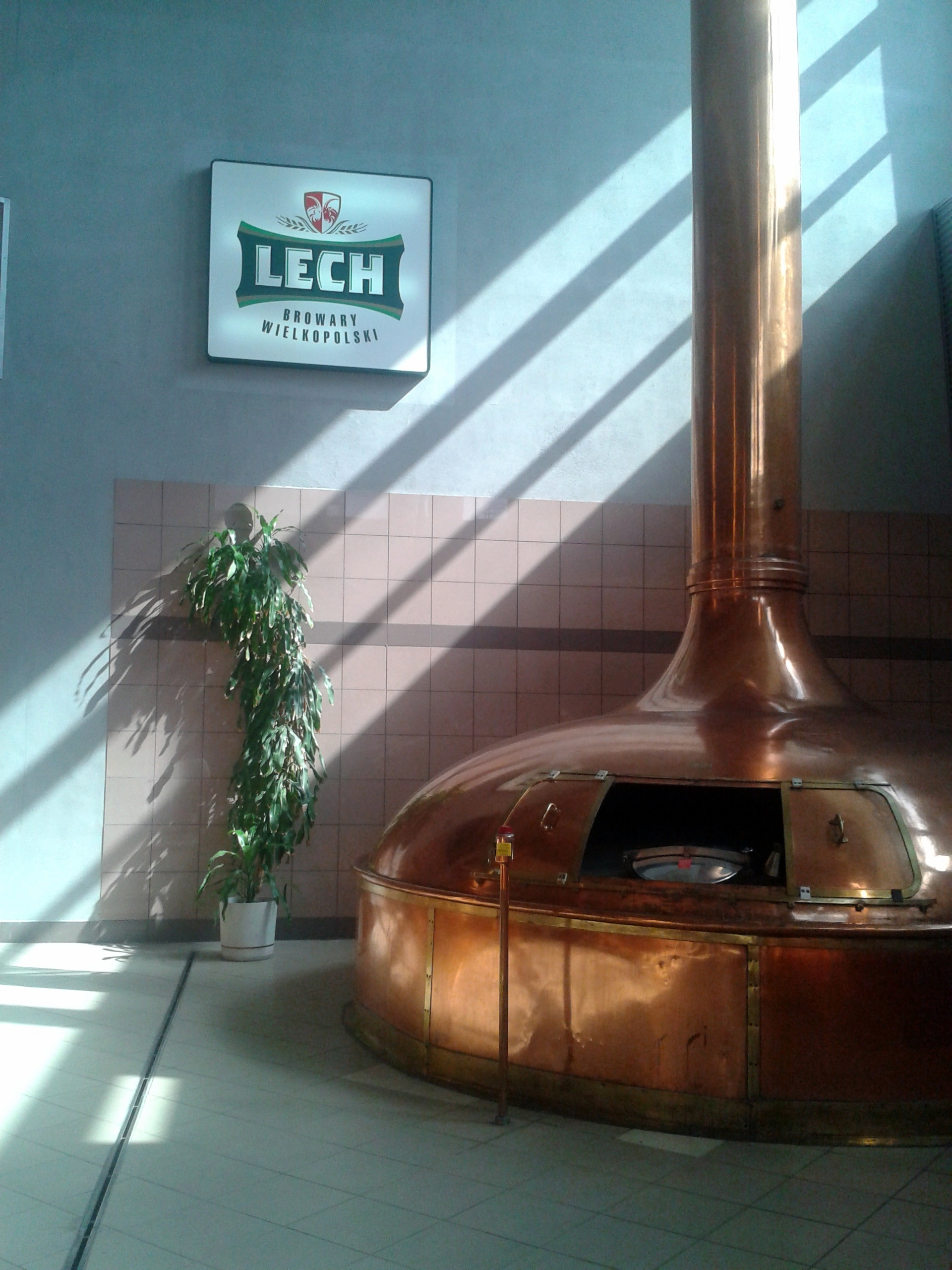 Part of Lech Browary Wielkopolski